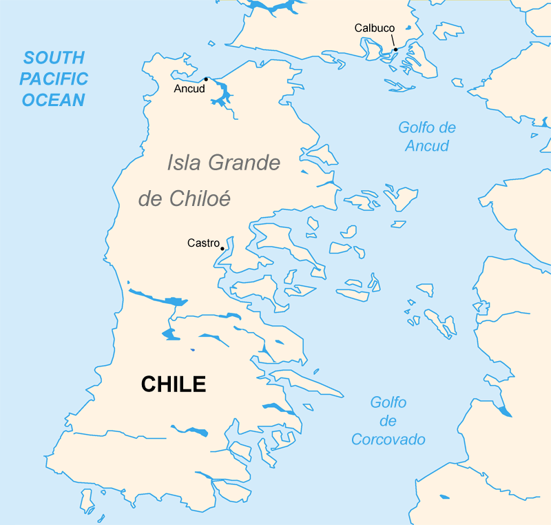 Map of Chiloe Island, Chile